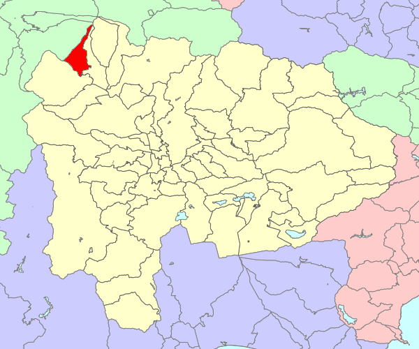 The former town of Kobuchisawa in Yamanashi Prefecture. Merged into Hokuto on March 15, 2006